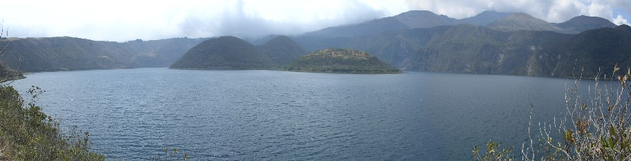 Lake Cuicocha, in Ecuador. It's one of the craters of the extint volcano Cotacahi.